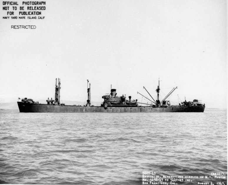 Lyra (AK-101) (broadside view) at anchor in San Francisco Bay, 4 August 1943. Navy Yard Mare Island photo # 5669-43, 8/4/43.